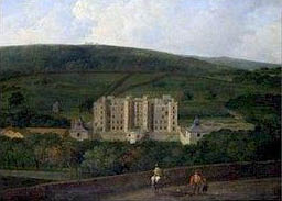 The west front of the Elizabethan version of Chatsworth House, Derbyshire, England.